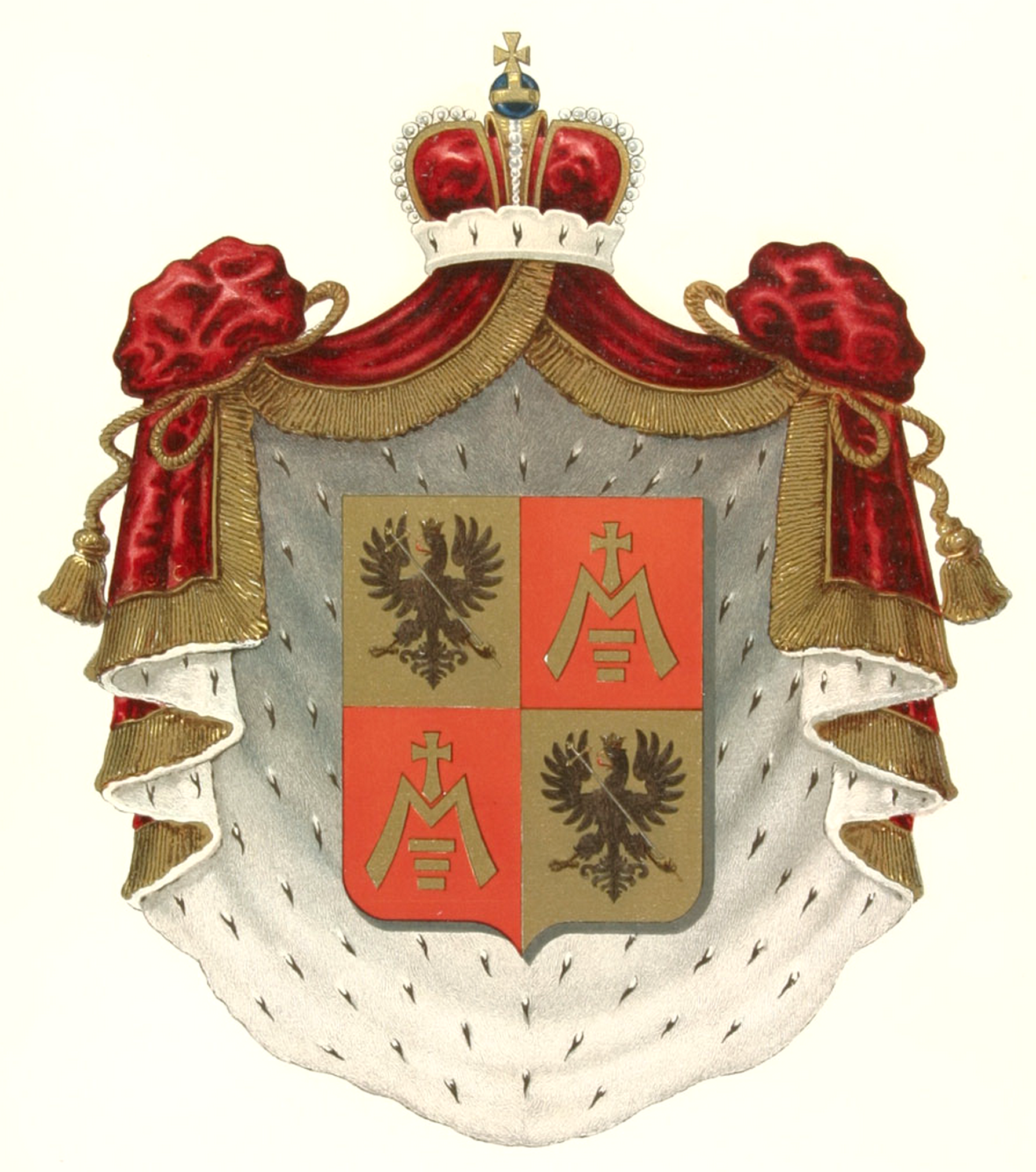 Coat of Arms of prince Mosalsky